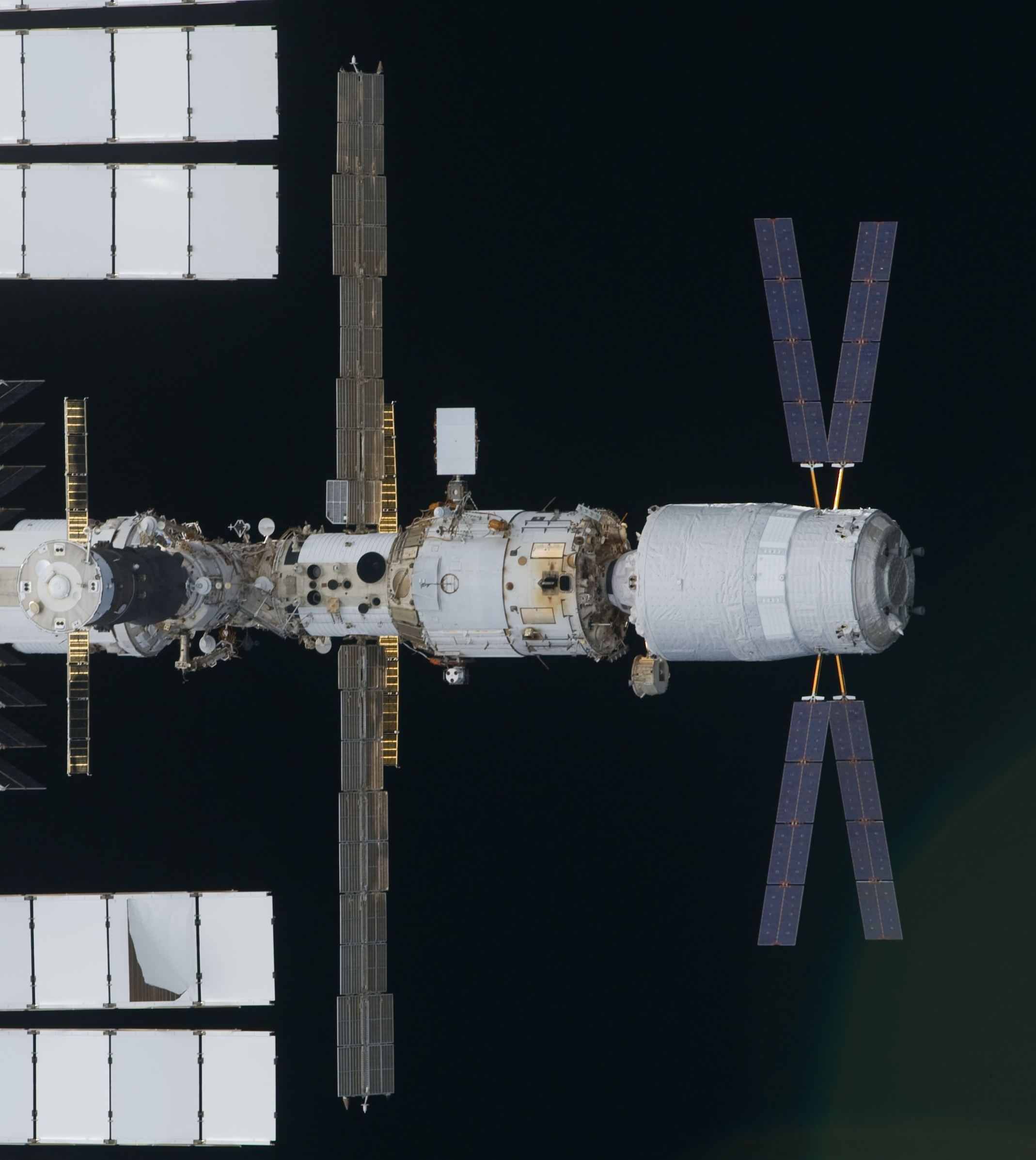 S133-E-006383 (26 Feb. 2011) --- A portion of the International Space Station is featured in this image photographed by an STS-133 crew member aboard space shuttle Discovery during STS-133 rendezvous and docking operations. Docking occurred at 2:14 p.m. (EST) on Feb. 26, 2011. The recently docked European Space Agency's "Johannes Kepler" Automated Transfer Vehicle-2 (ATV-2) is on the right side.